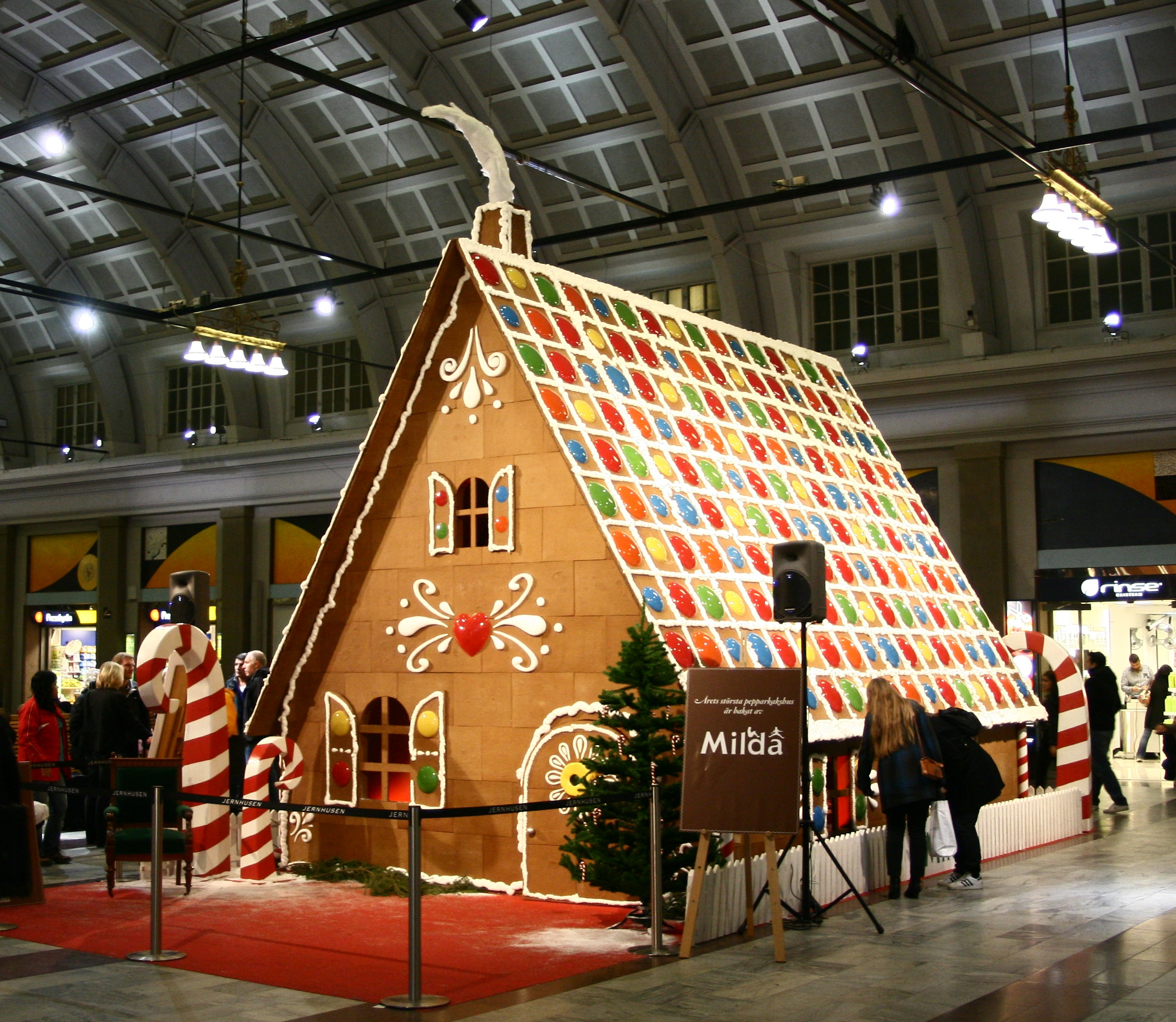 Full-size gingerbread house made by Milda, a margarine and cream products producer, seen at front in Stockholm Central Station.